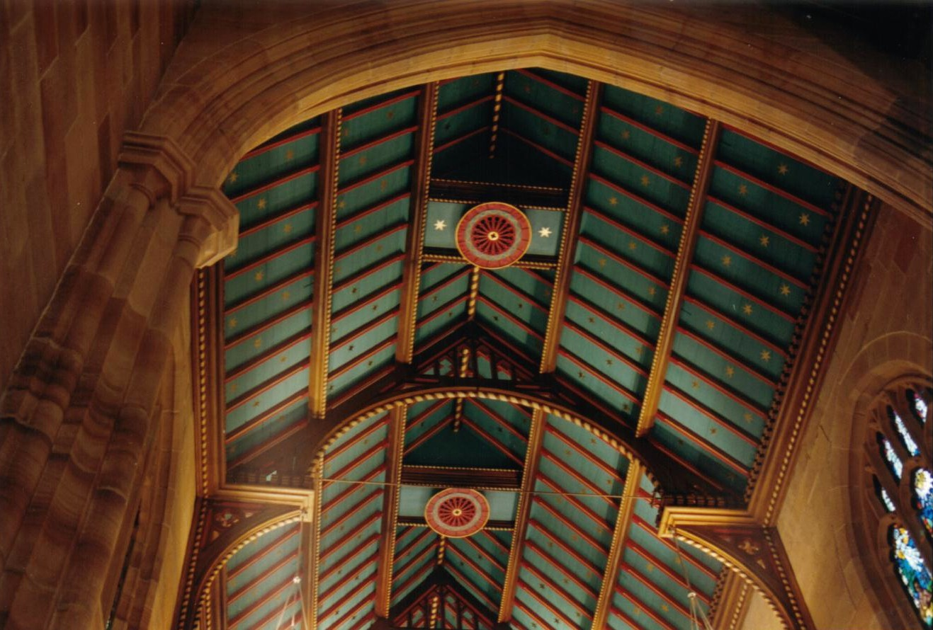 Sydney, St. Andrew's Anglican Cathedral,the hammer beam roof